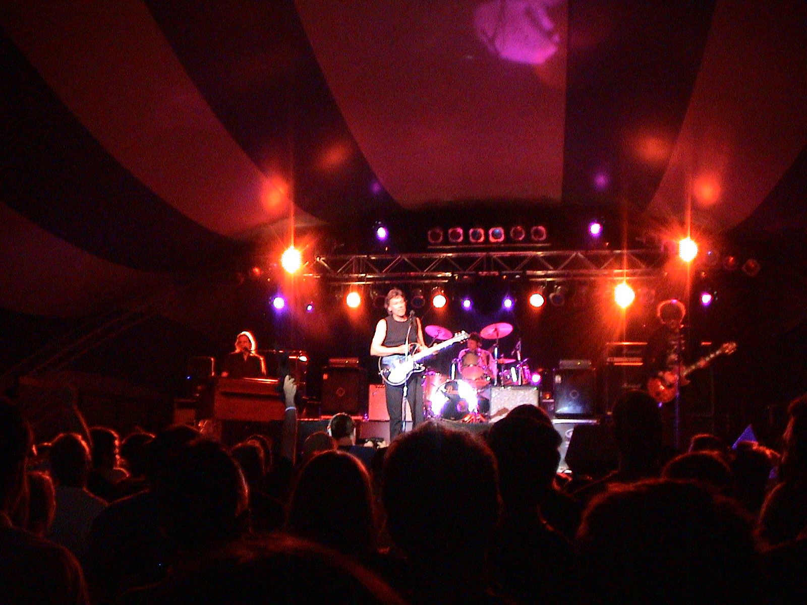 Steppenwolf - Gananoque - August 2006